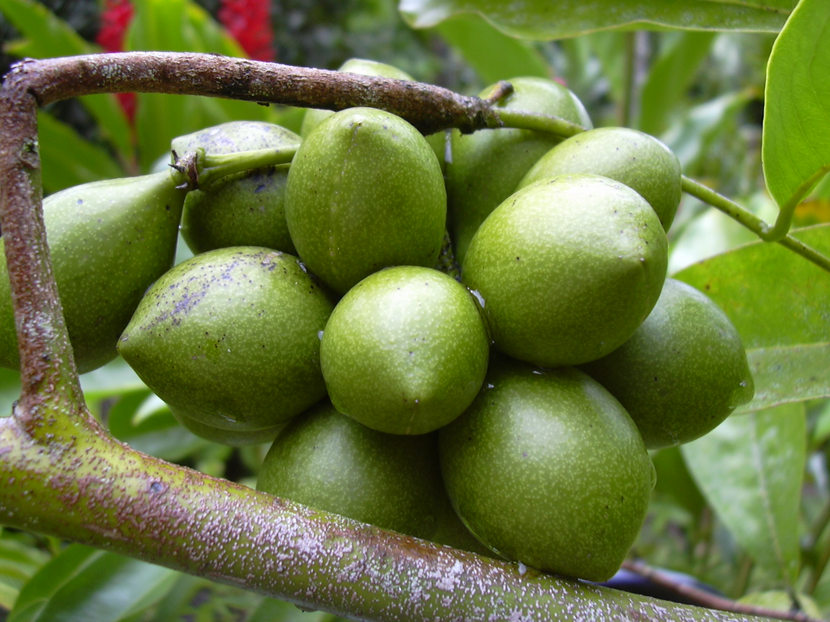 Artabotrys hexapetalus (fruit). Location: Maui, Keanae Arboretum